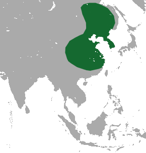 Amur Hedgehog (Erinaceus amurensis) range